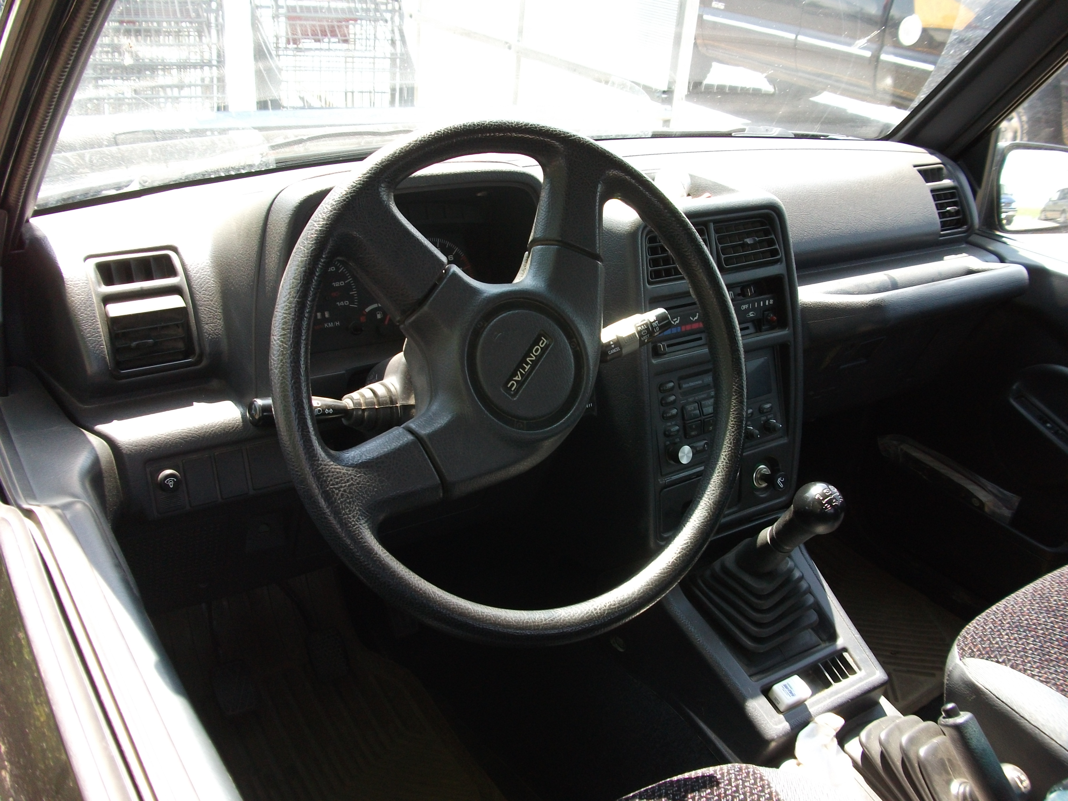 Finally a Pontiac Sunrunner in great, stock shape. The Pontiac version of the Sidekick / Tracker sold only in Canada.